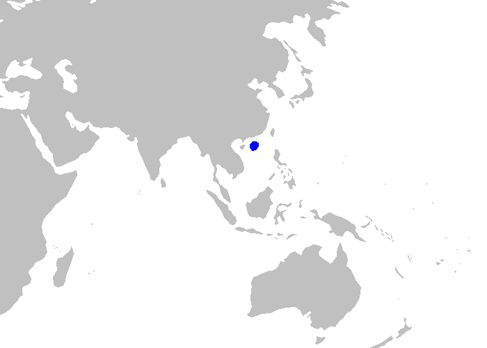 Distribution map for Apristurus macrostomus